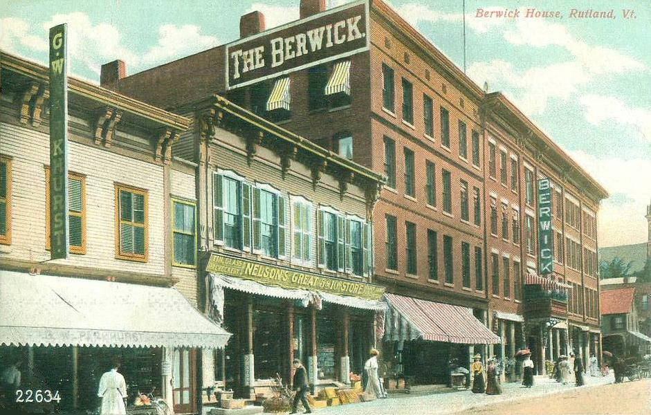 The Berwick House, Rutland, Vermont; from a 1907 postcard published by the Souvenir Post Card Company, New York. Built in 1868, the hotel had 110 rooms. It burned in 1973.